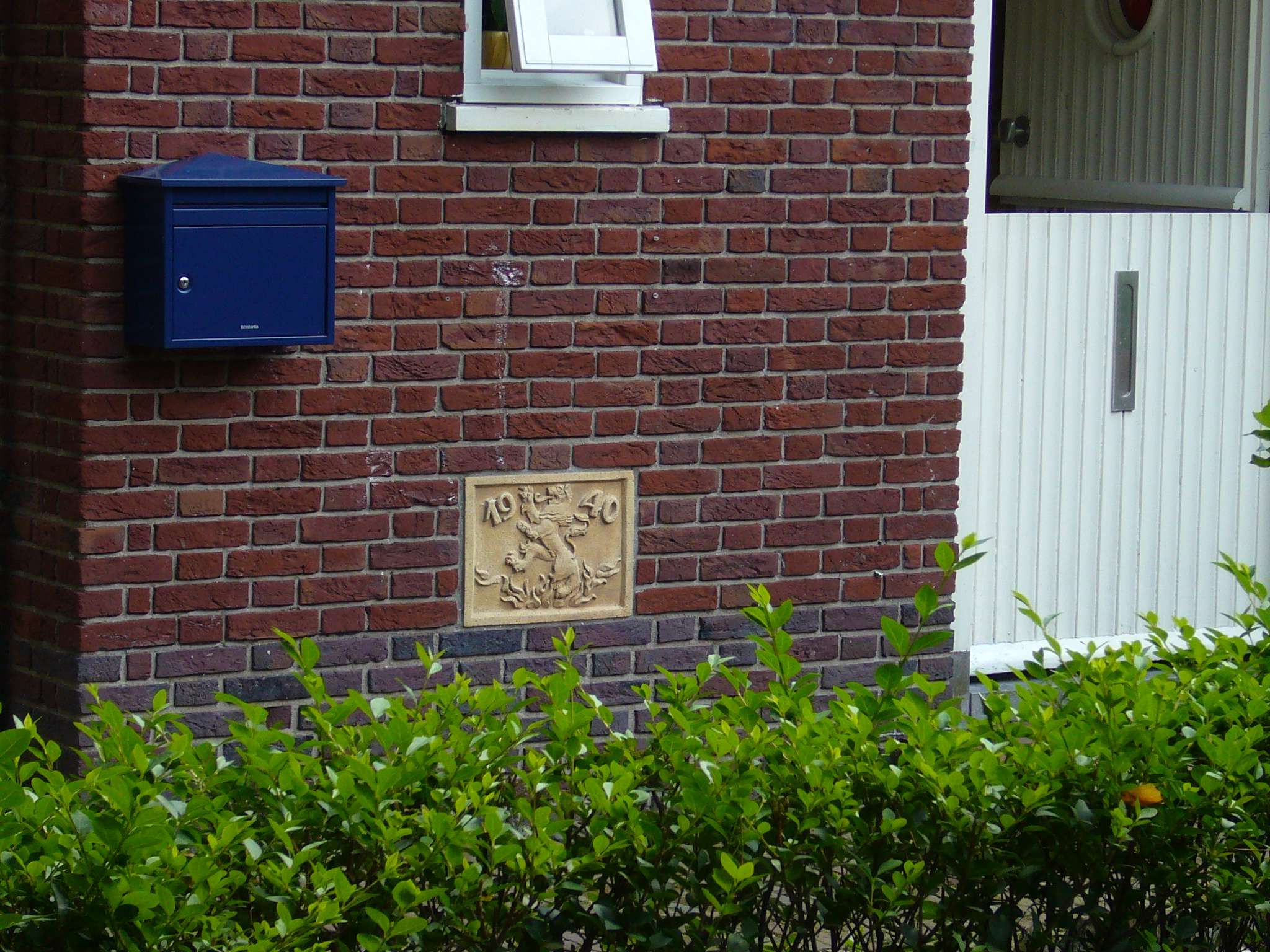 House rebuilt after WorldWar II on Hooglandseweg-Noord, Marshland Hooglandsedijk, Amersfoort, Netherlands Taken with Panasonic Lumix DMC-FX3 Original picture 2048 x1536 pixels